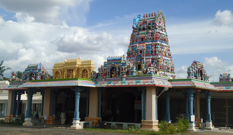 this Photo was taken by me in Namakkal Keerambur Ettukai Amman Temple